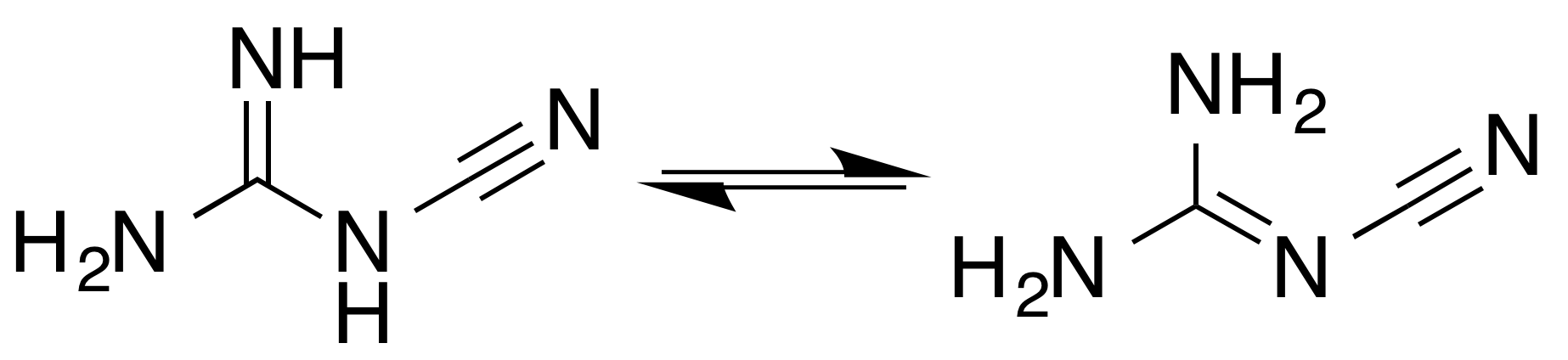 Skeletal structures for the tautomerization of 2-cyanoguanidine.